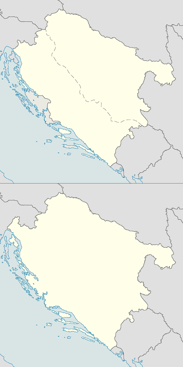 Collage of NDH locator maps for 1941-43 and 1943-45 for use in info-box